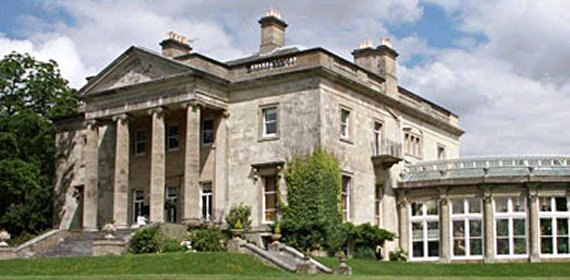 Photograph taken by me